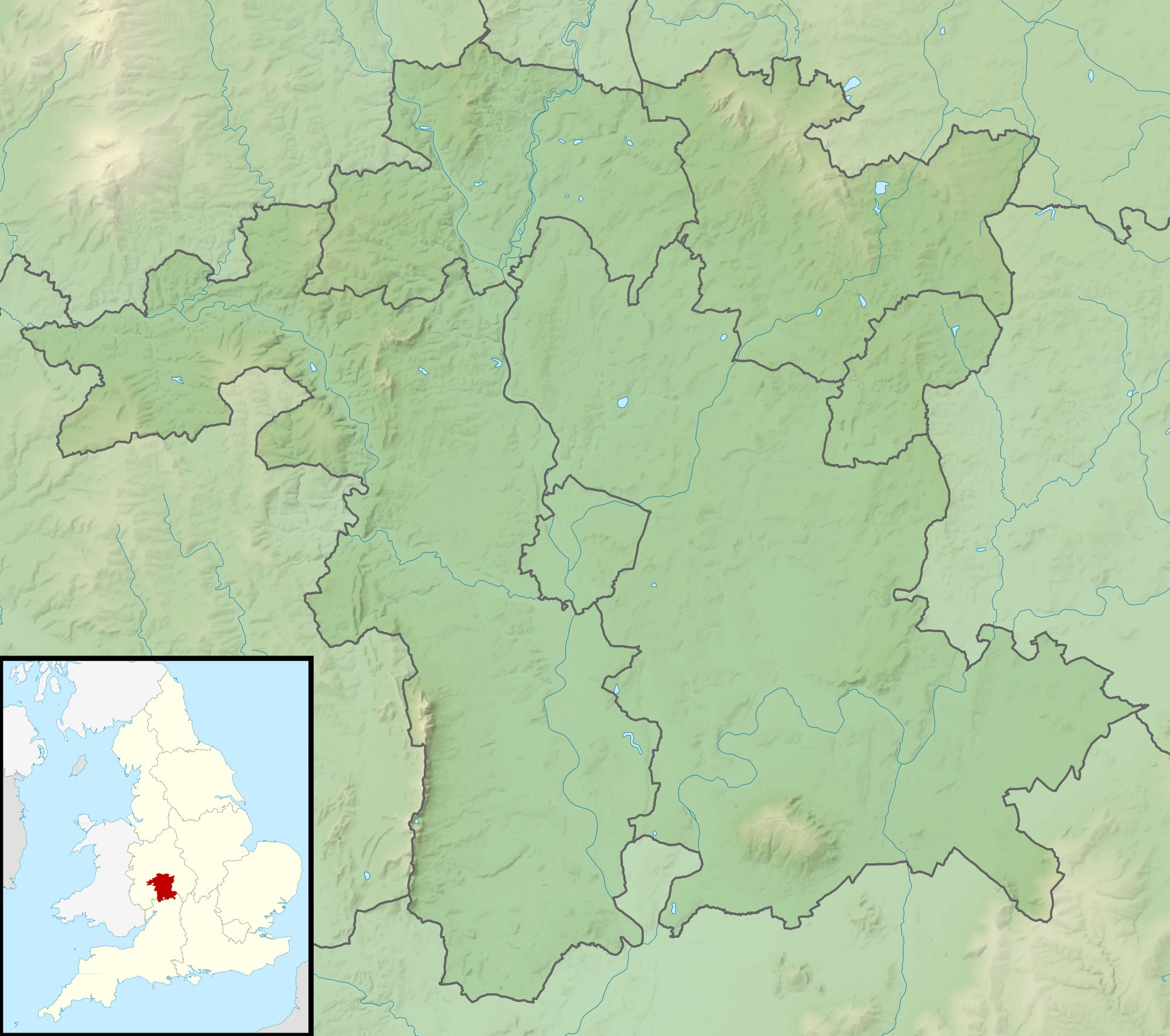 Relief map of Worcestershire, UK. Equirectangular map projection on WGS 84 datum, with N/S stretched 160% Geographic limits: West: 2.68W East: 1.74W North: 52.47N South: 51.95N